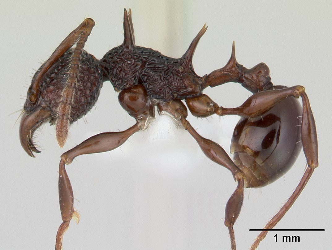 Profile view of ant Acanthomyrmex ferox specimen casent0178572.